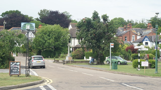 Saltwood, Kent View across the small village green, to the houses beyond.